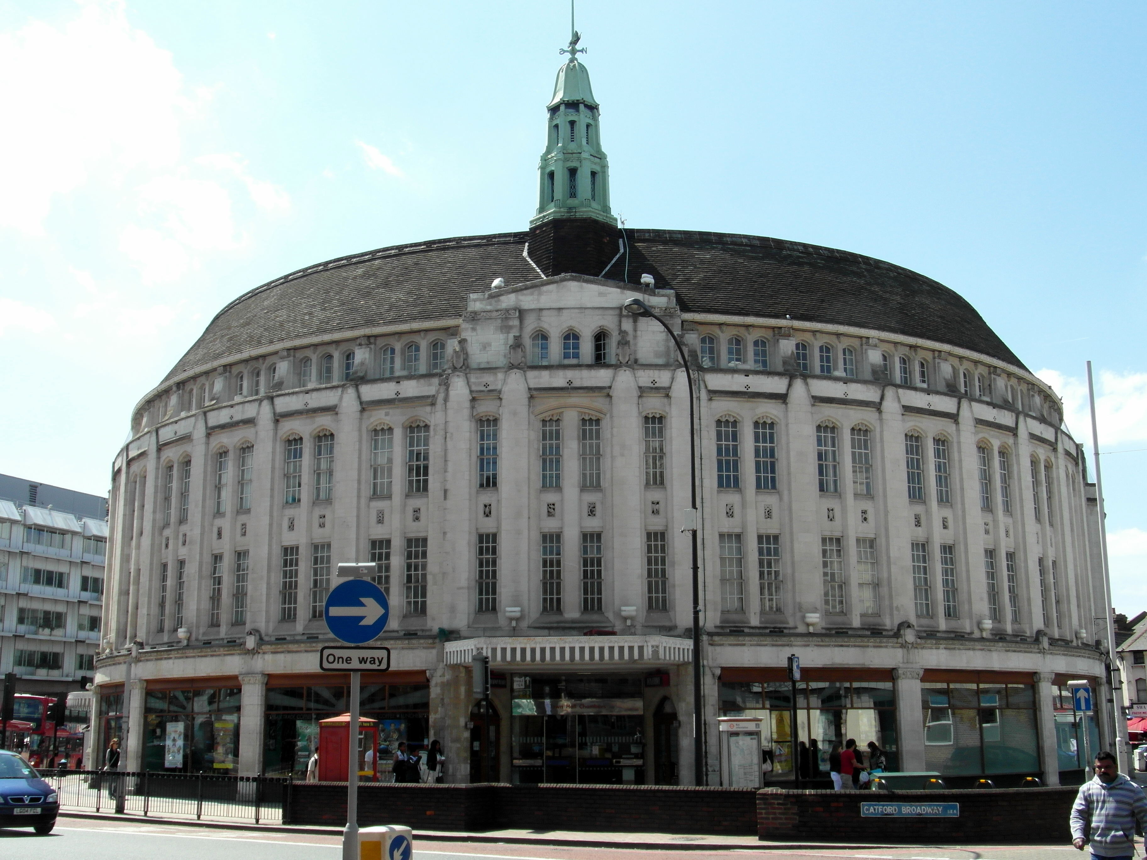 Catford Broadway, Catford. Public Halls, designed by Bradshaw, Gass and Hope and built 1931-32